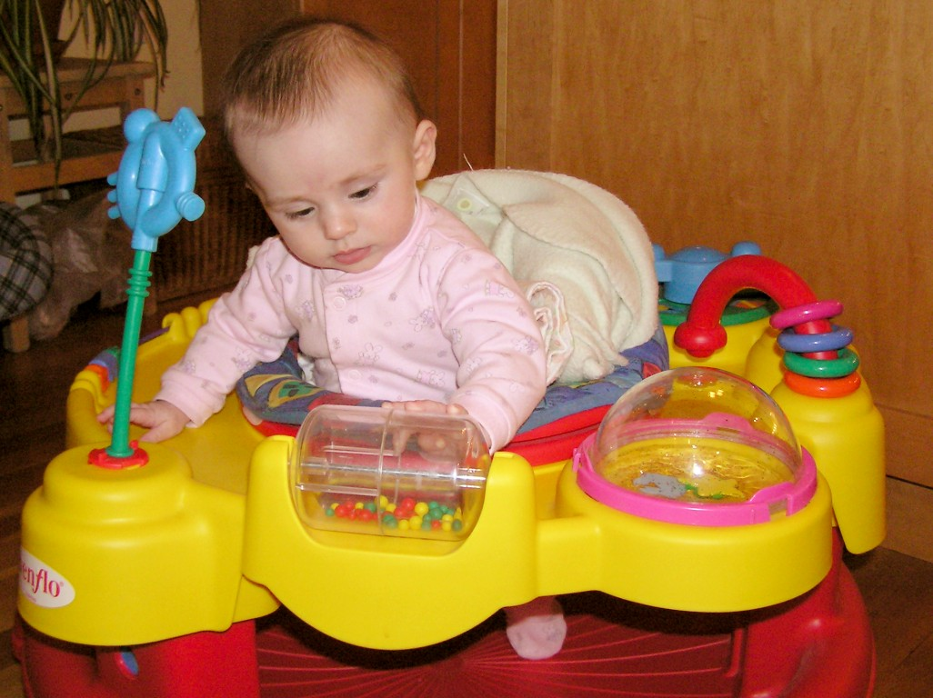 Baby Vivian in a play saucer.